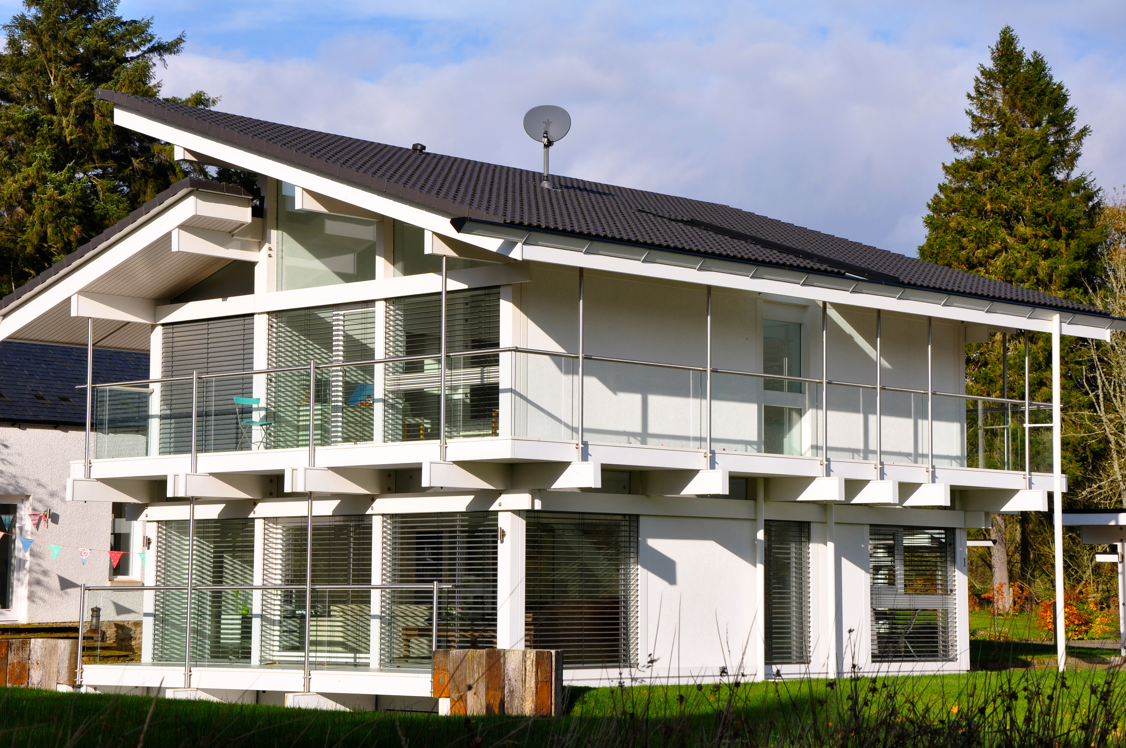 A prefabricated house in West Linton, Scotland, made by the German company Huf Haus GmbH & Co. KG.